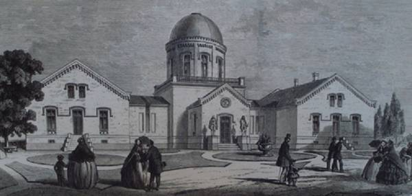 Old image of Østervold Observatory in Copenhagen, Denmark